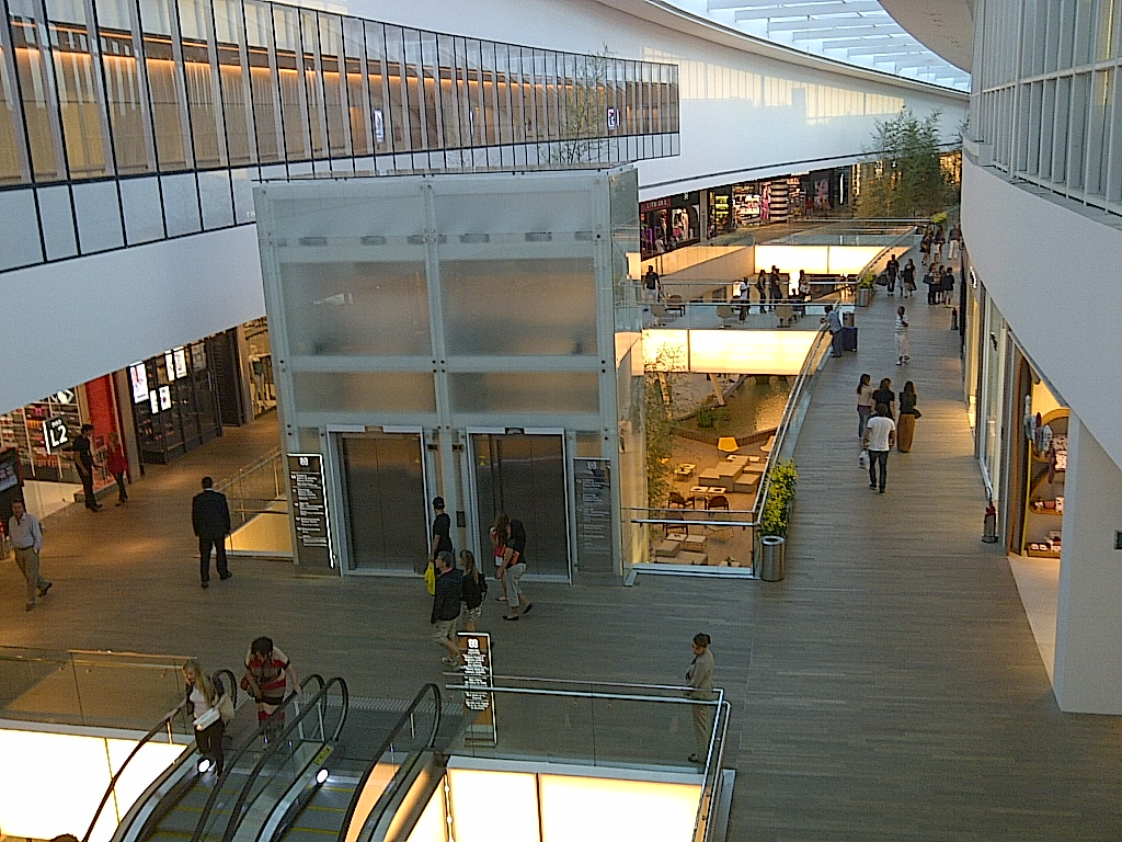 Village Mall